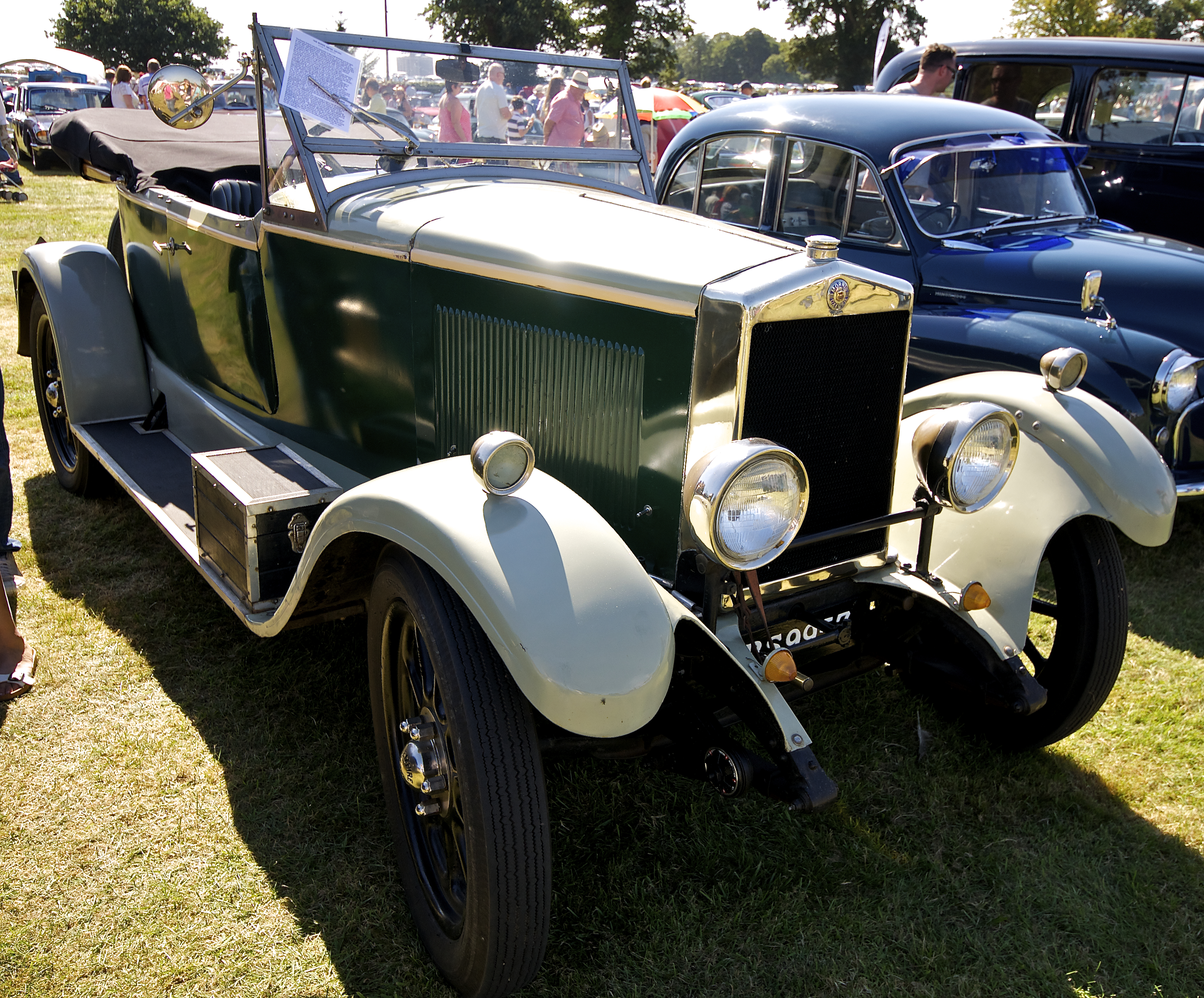 1928 Morris Oxford 15.9 Empire open 2-seater (DVLA) manufactured 1928, 2513 cc Fornham St Martin Suffolk 9 September 2012